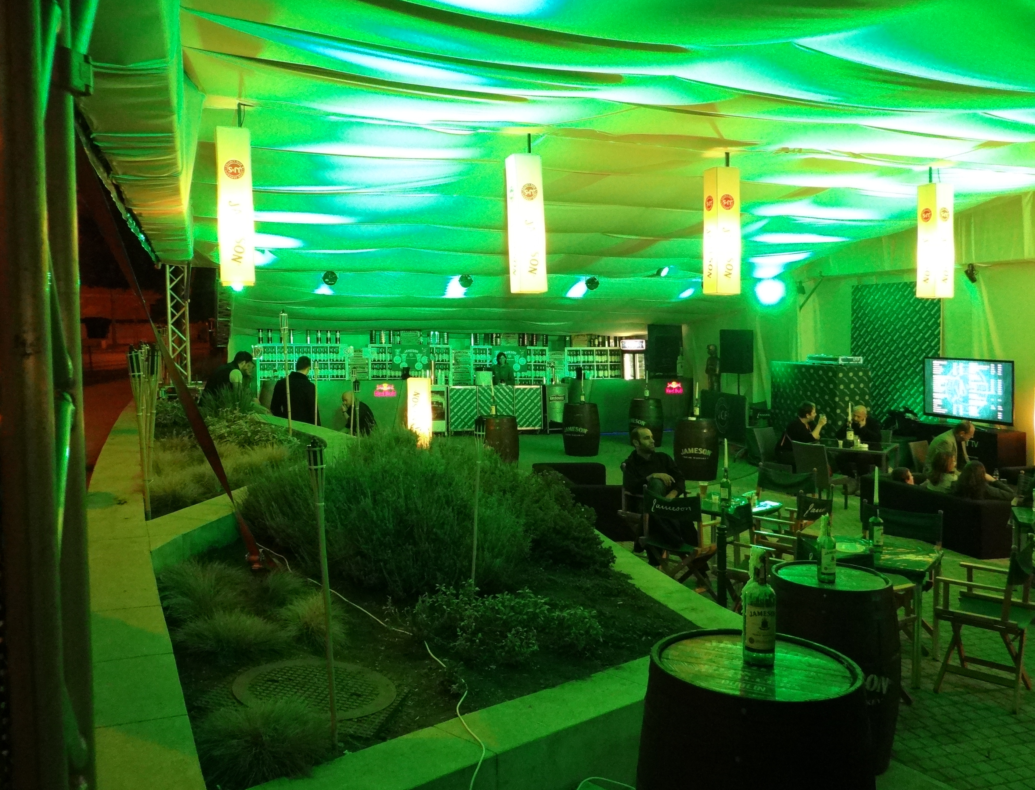 Jameson CineFest terrace, 2013, Miskolc, Hungary